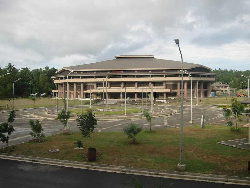 Civic Center